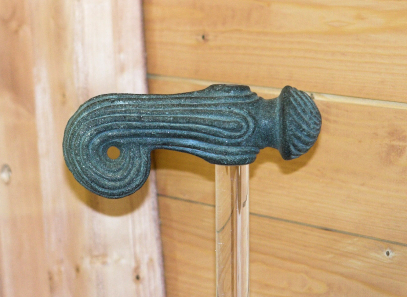 Information Description: Head of a sceptre, made from Andesit for a bulgarian chieftain Source: own work Date: June 2006 Author: Martin Bahmann